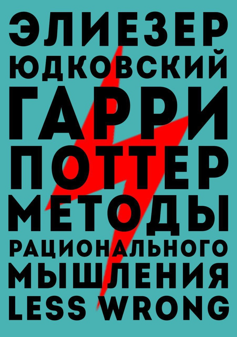 One of the covers sent to the Russian "Harry Potter and the Methods of Rationality" crowdfunding print project. A different variant was chosen; this one is available as a dust jacket.